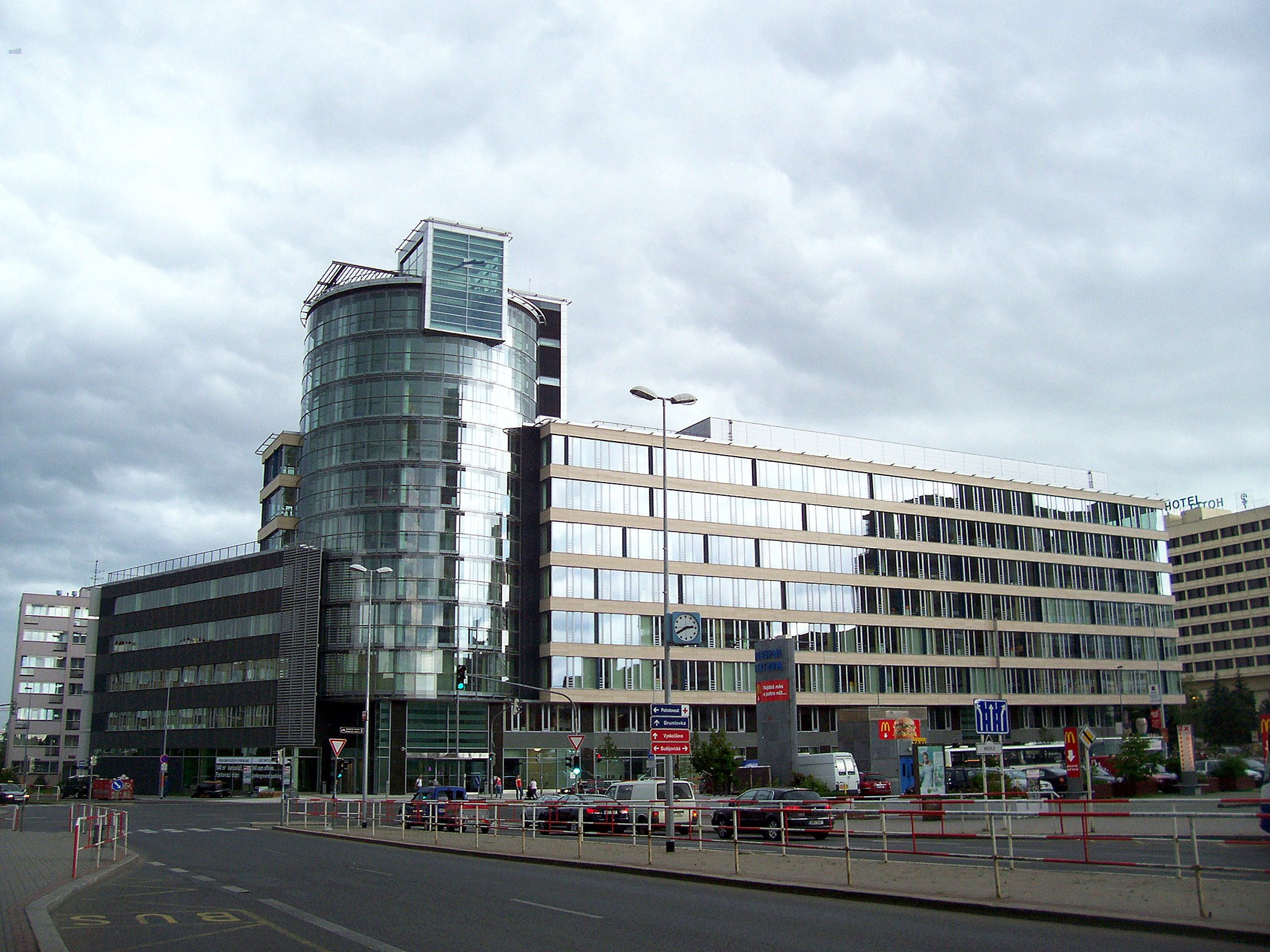 Office building of Trianon, Budějovická ulice, Praha